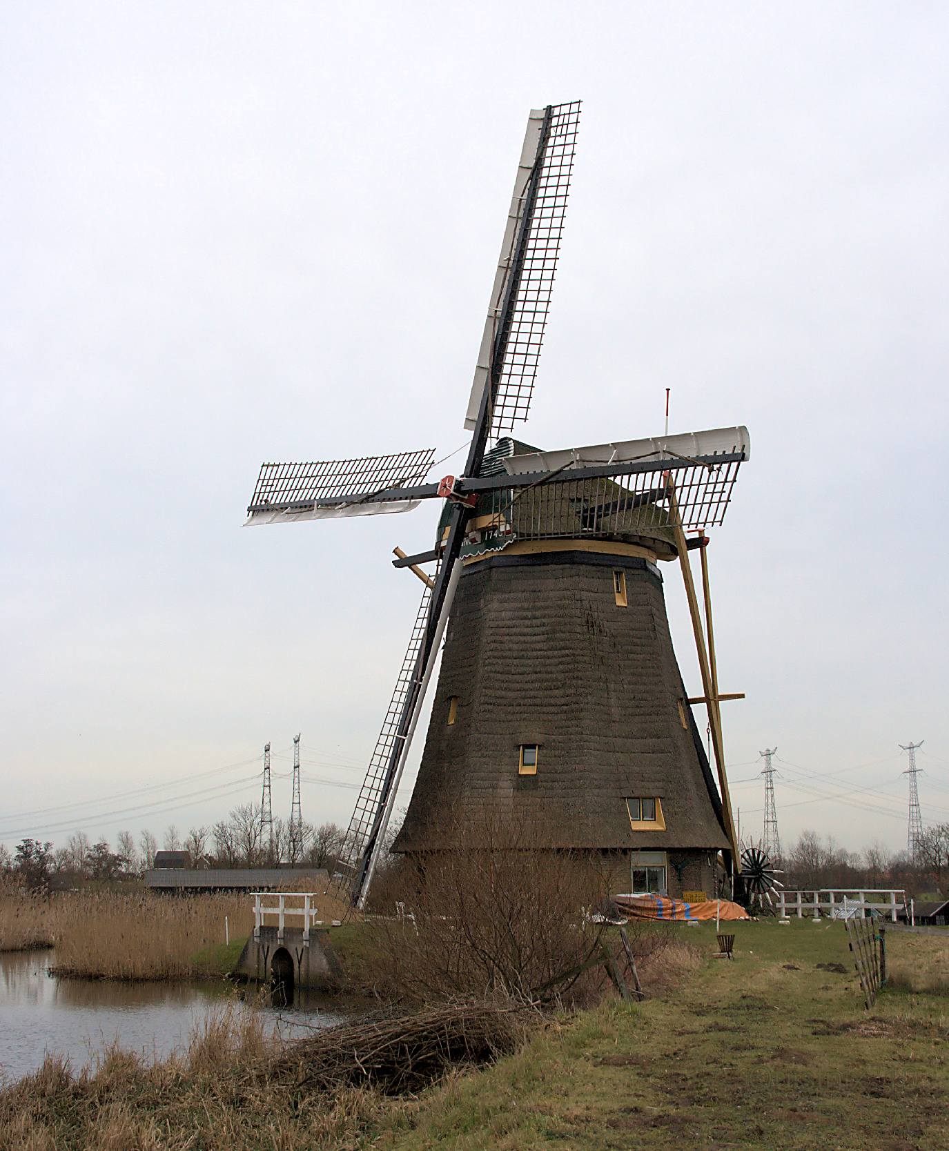 Nieuw-Lekkerland: Hoge Molen